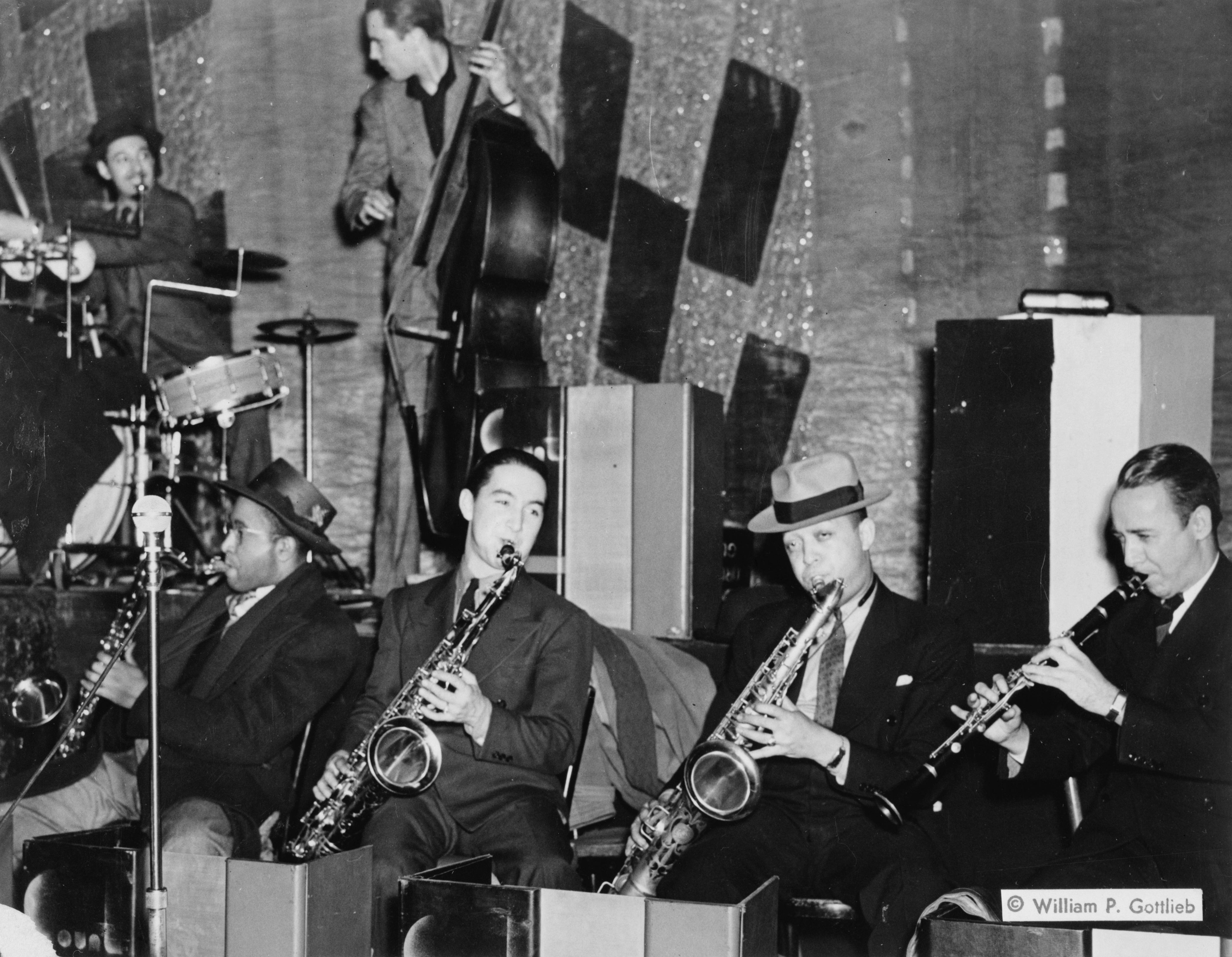 Ray Bauduc, Herschel Evans, Bob Haggart, Eddie Miller, Lester Young, Matty Matlock, Howard theatre, Washington D.C., ca. 1939. Photography by William P. Gottlieb